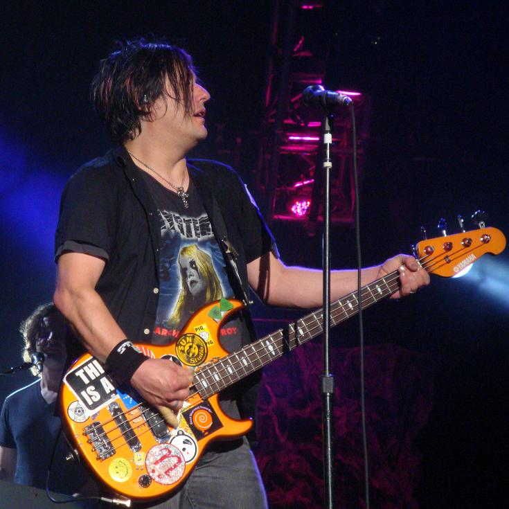 Robby Takac performing at Molson Amphitheatre on July 25th, 2010.